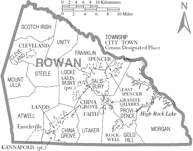 Map of Rowan County, North Carolina, United States with township and municipal boundaries